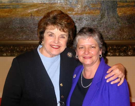 California Senator Diane Feinstein (left) with the Mayor of Sacramento, California, Heather Fargo